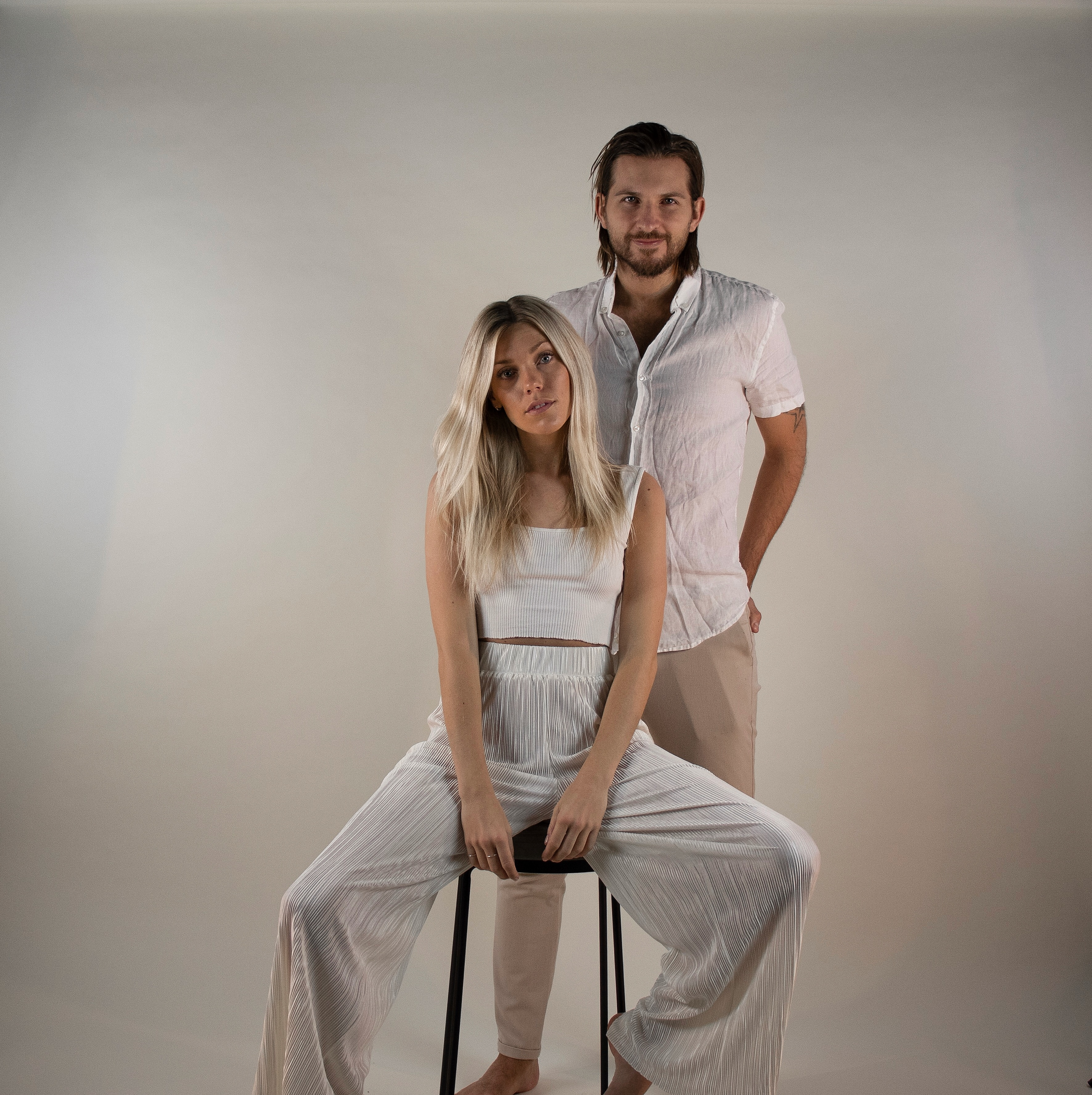 UNDRESSD, the dynamic duo consisting of Elina Mayskär and Erik Pettersson.